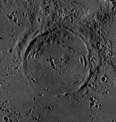 LROC image WAC No. M117270264ME.